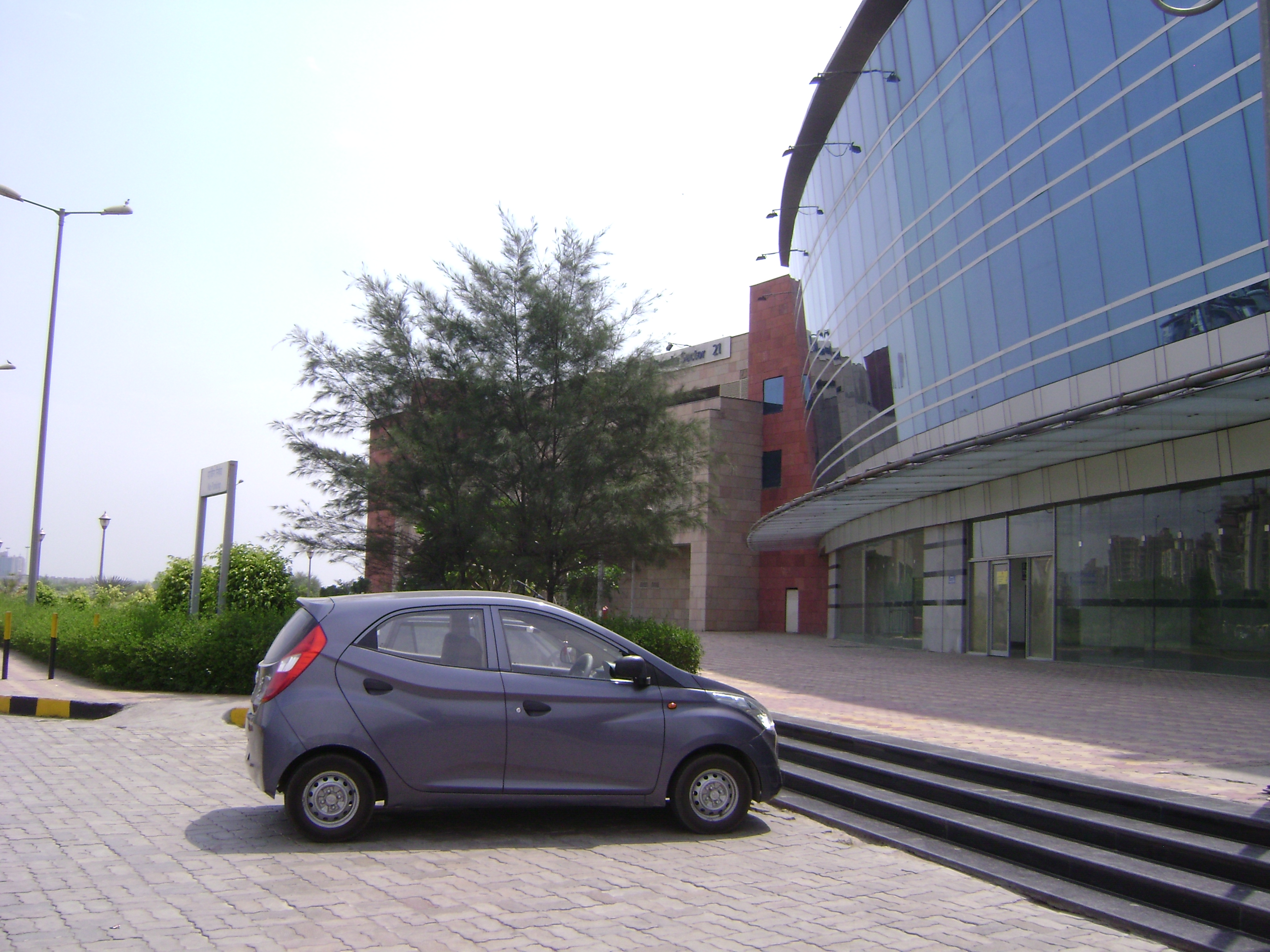 The left side view of Dwarka Sector 21 Metro Station.